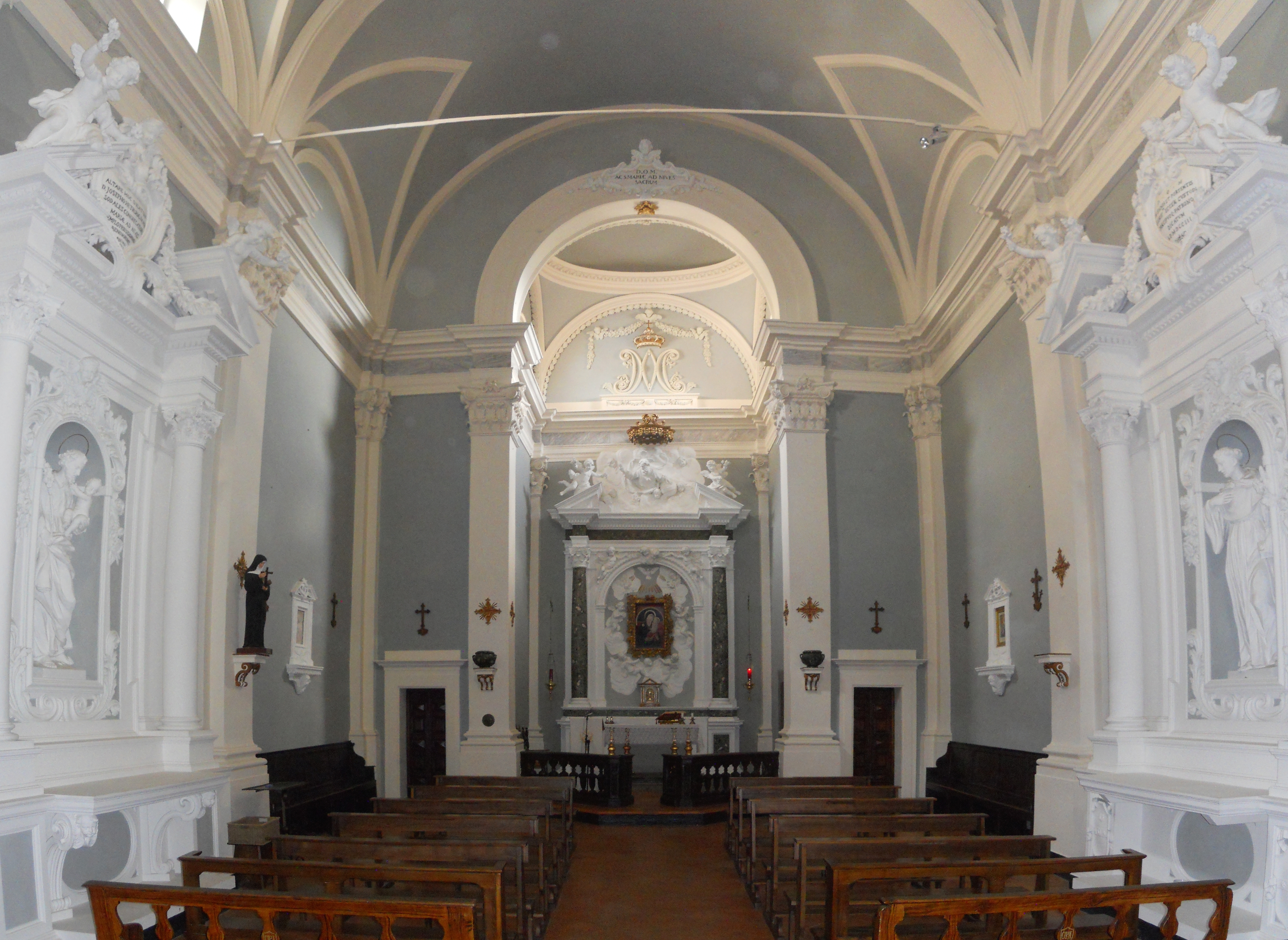 See filename. This image was created with Hugin